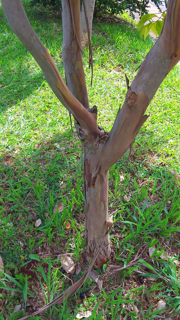 Eugenia candolleana (Rainforest plum, cambuí roxo, murtinha), trunk and lower branches showing naturally peeling bark. Picture taken in the UNICAMP campus (Campinas, SP, Brazil) by J. Stolfi on 2012-02-26, with a Kodak Playsport; reduced to 1/3 size with GIMP.